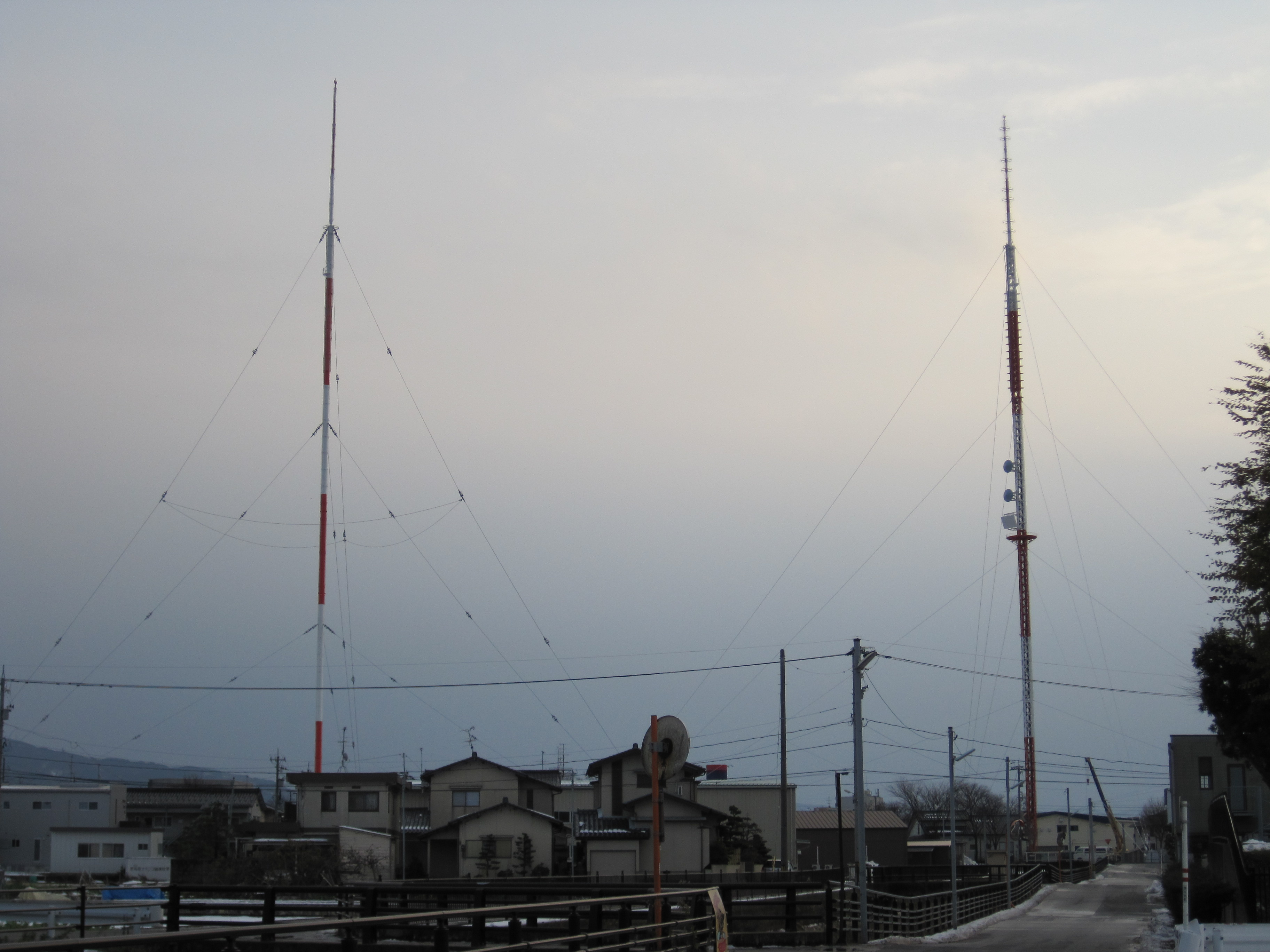 NHK Nonoichi Radio Transmitting Station in Nonoichi, Ishikawa prefecture NHK Radio 1:JOJK 1224kHz 10kW NHK Radio 2:JOJB 1386kHz 10kW NHK-FM:JOJK-FM 82.2MHz 1kW